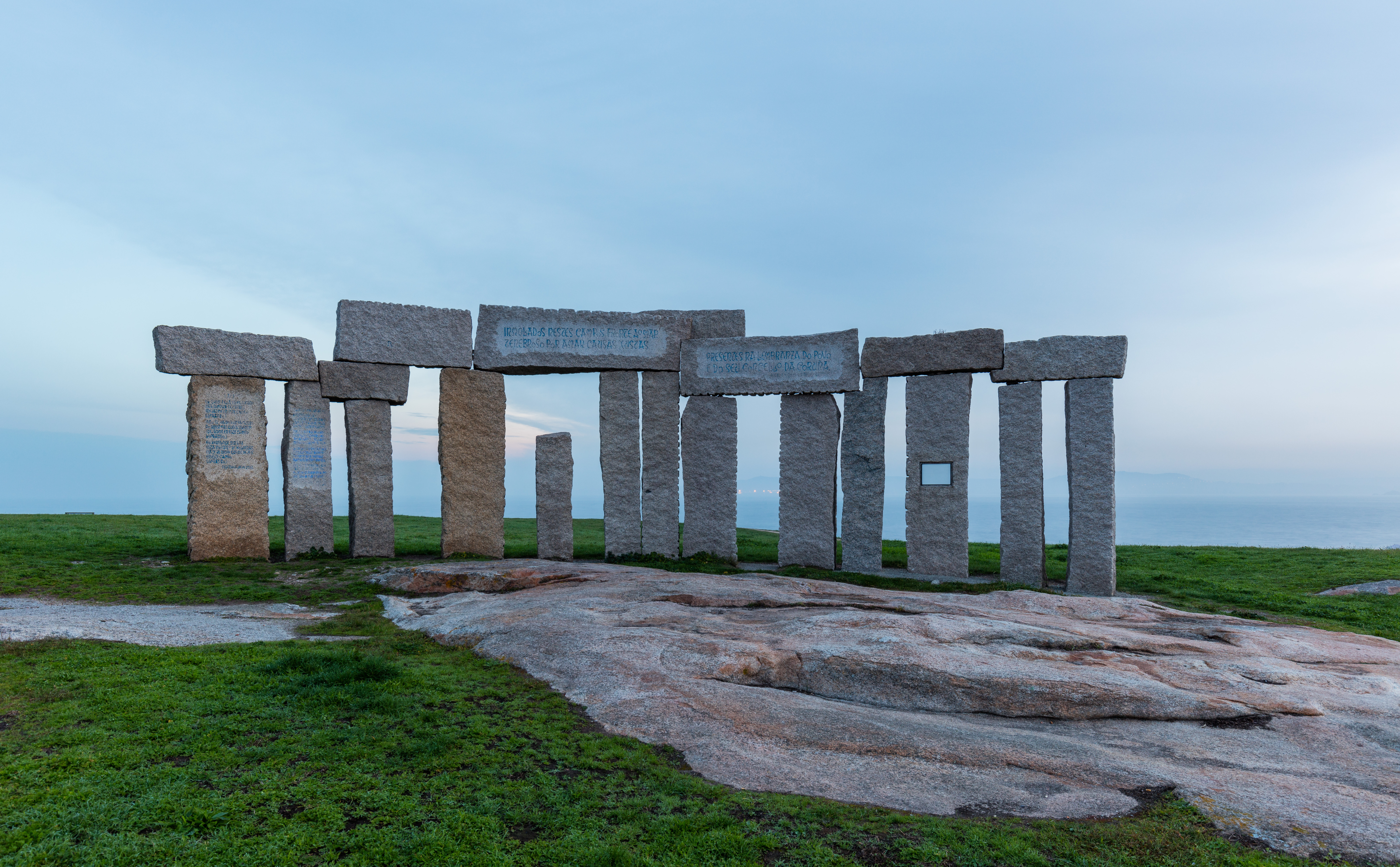 The Dolmens, Tower Park, La Coruña, Spain